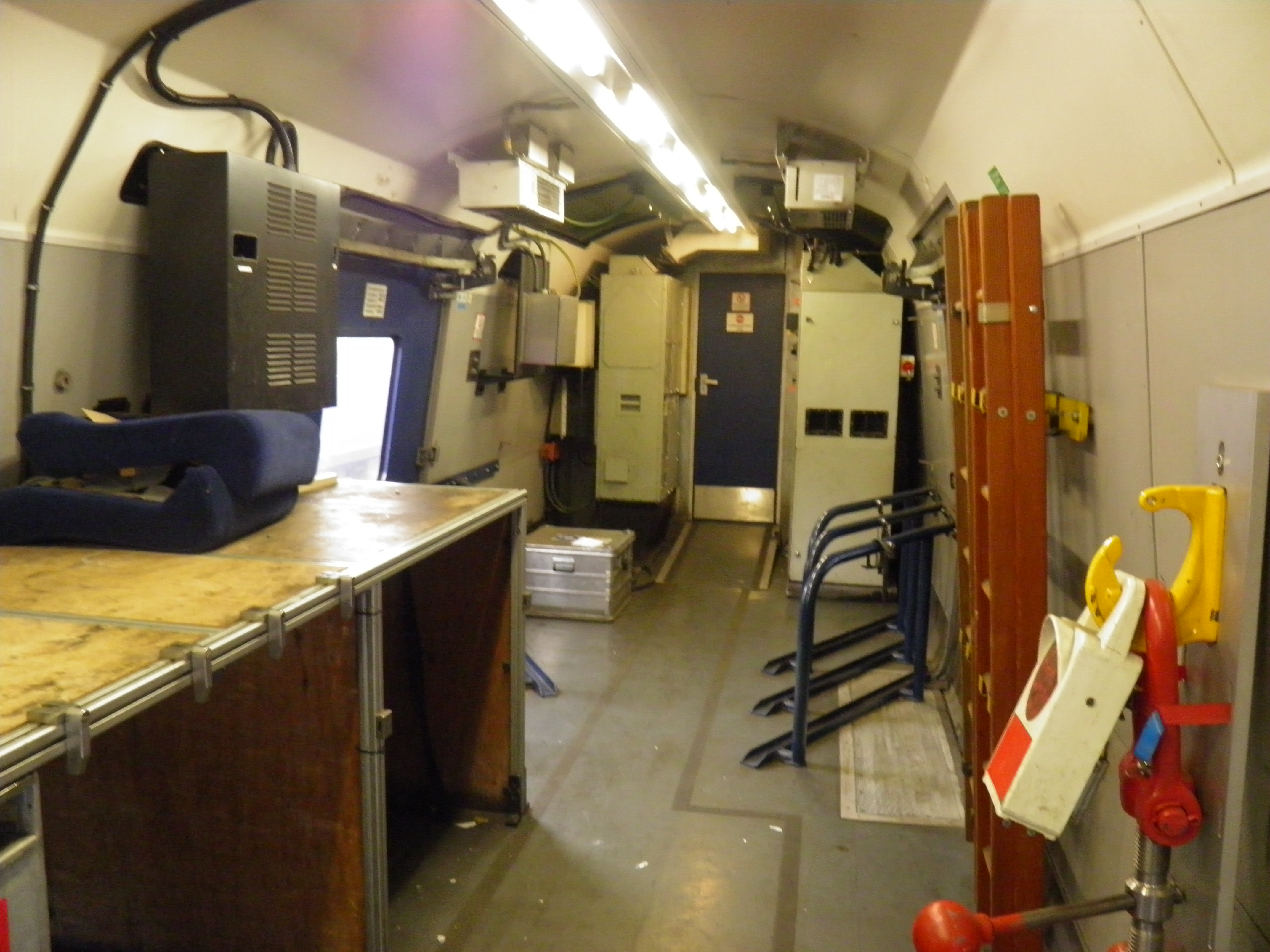 inside the main area of an LNER mk4 DVT